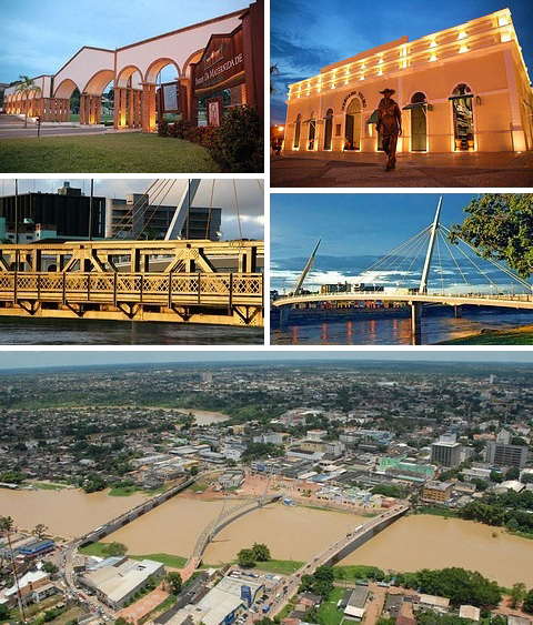 Rio Branco Acre Montagem